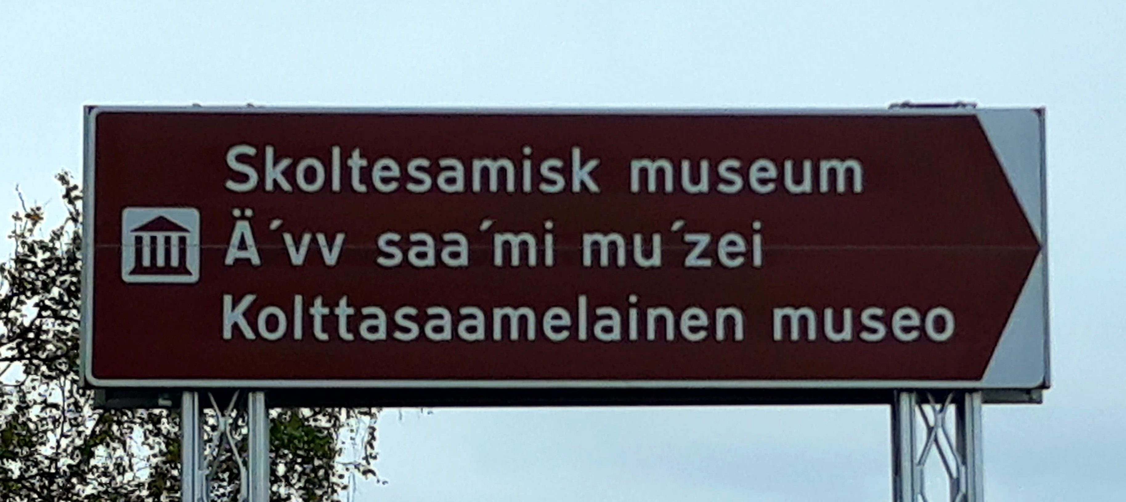 Sign for the Äʹvv Skolt Saami Museum in Neiden, Norway